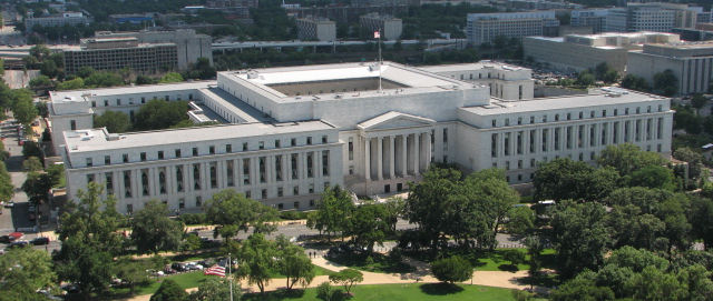 View of the Rayburn House Office Building from United States Capitol dome, taken on July 12th, 2007, by Rebel At.